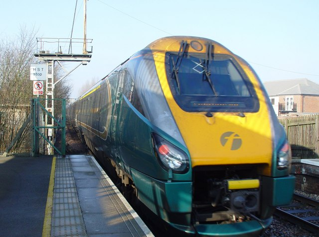 The Hull Trains Service leaves Brough Railway Station, Brough, East Riding of Yorkshire, England.